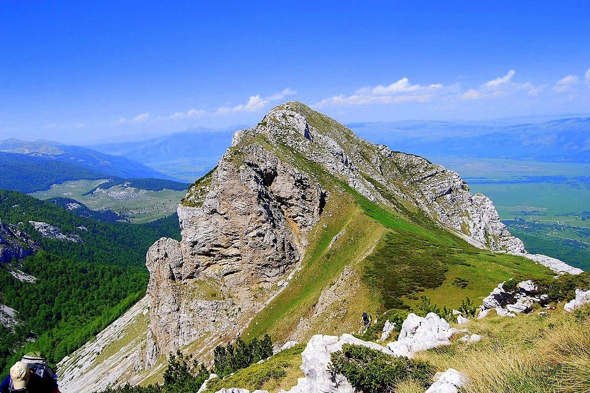 Mali Troglav, Dinara